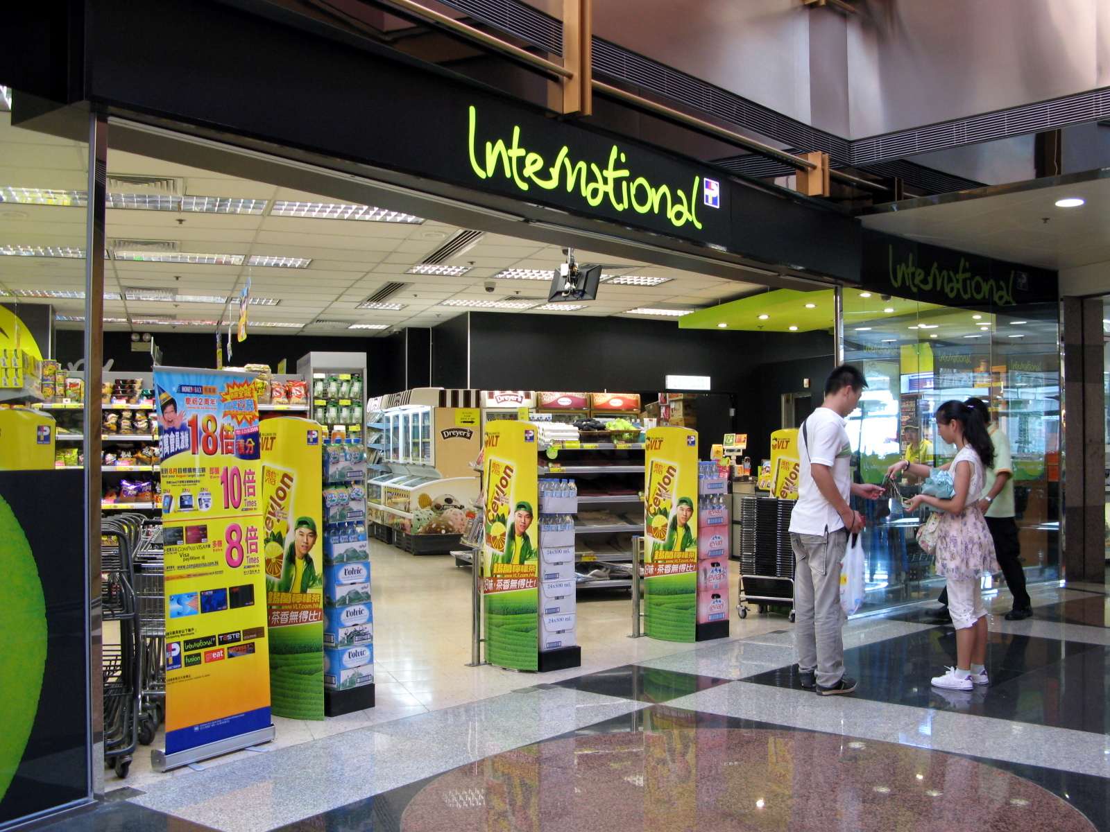 International by PARKnSHOP The Peak Gallera Store